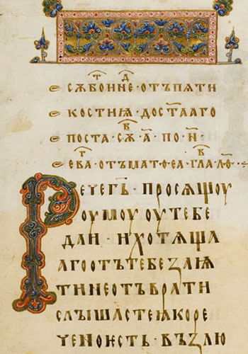 Ostromir's Gospel (mid 11th century) from the National Library of Russia. It was created by deacon Gregory for his patron, Posadnik Ostromir of Novgorod, in 1056 or 1057.